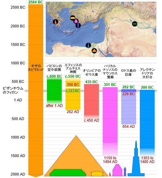 Timeline and map of the Seven Wonders of the Ancient World by CMG Lee, compared with the approximate lifespan of Philo of Byzantium who described them. Dates in bold green and dark red are those of their construction and destruction, respectively, based on data at . The map is from . Tsuchikura translated letters in the picture into Japanese.